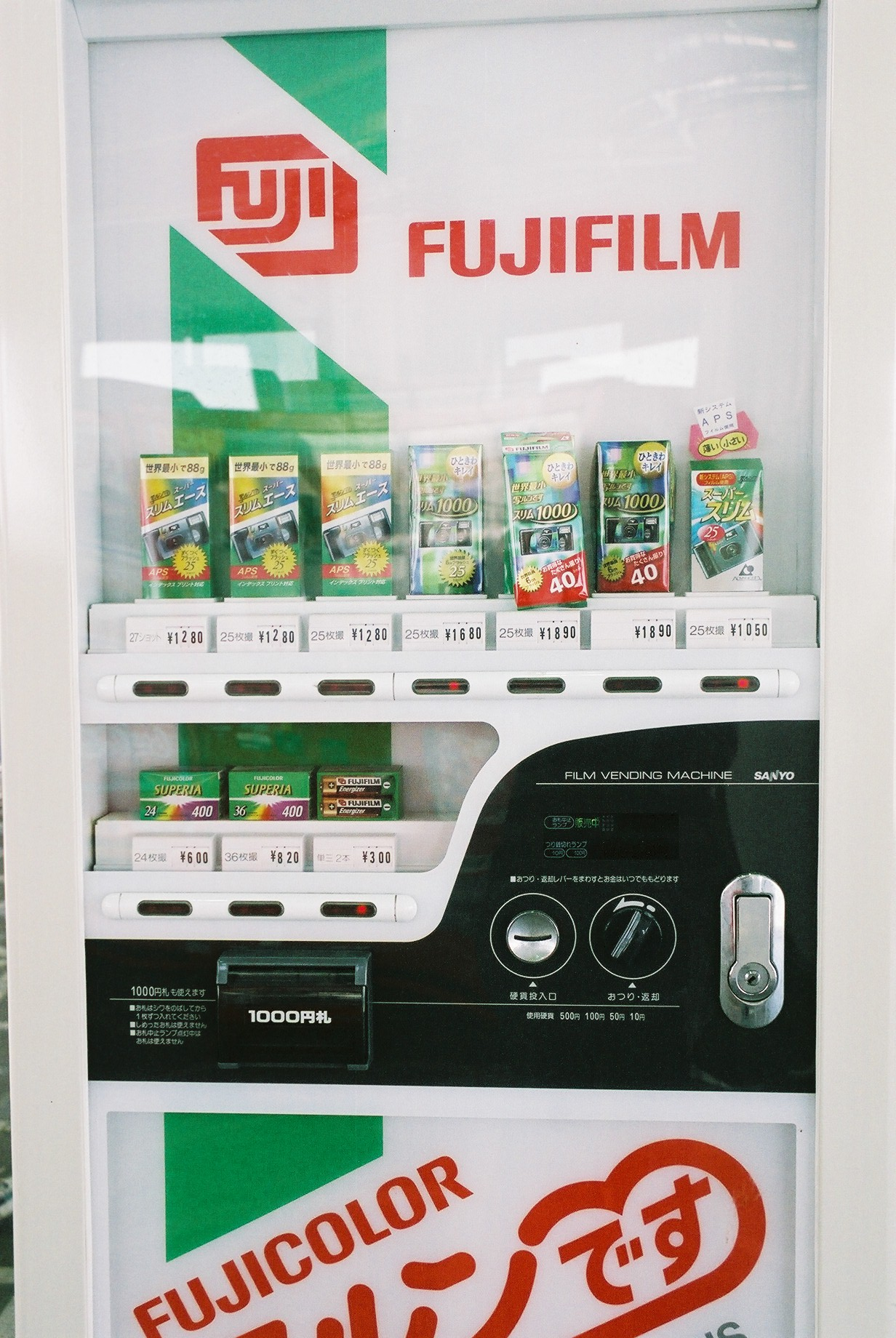 Fujifilm Utsurundesu(A.K.A.QuickSnap) and film vending machine. Machine built by Sanyo Electric.